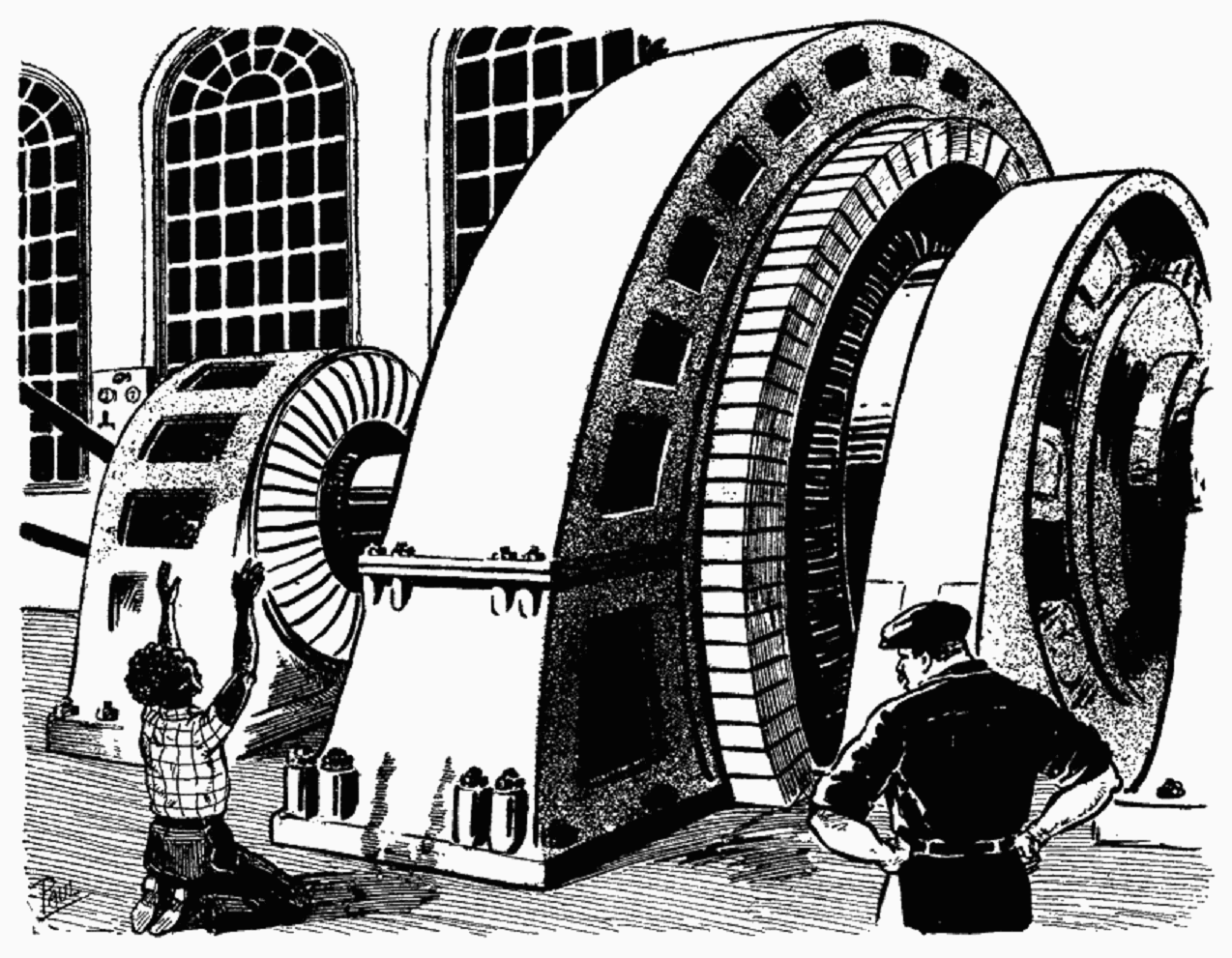 Opening illustrations by Frank Rudolph Paul from H.G. Wells' short story "The Lord Of The Dynamos", published in the pulp magazine Amazing Stories; February 1929.